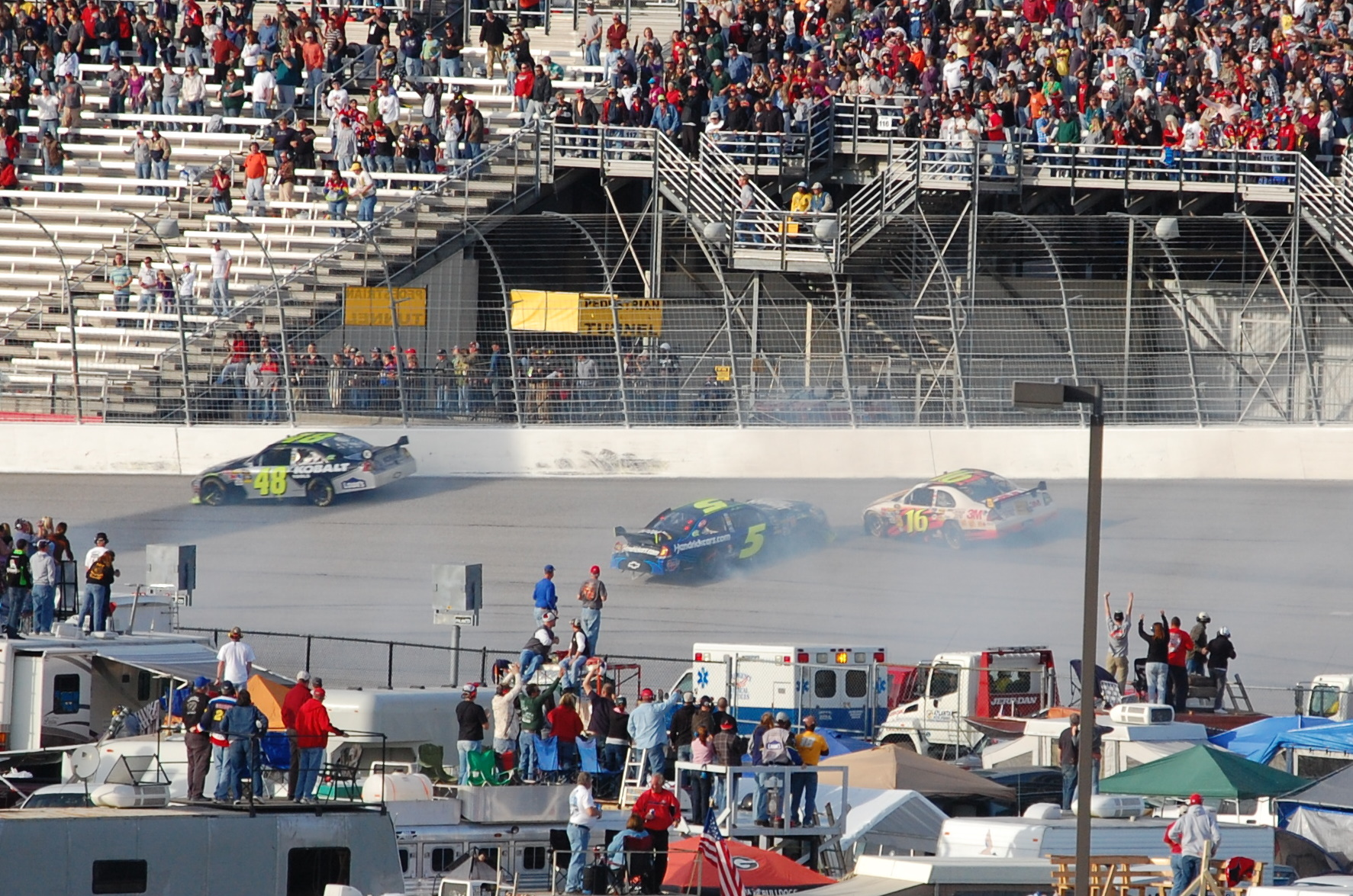 As Jimmie Johnson (#48) skates by unscathed, Mark Martin (#5) and Greg Biffle (#16) are on a collision course. Because this wreck happened just before the leader, Kurt Busch, could take the white flag, they had another green-white-checkered finish to determine the winner.